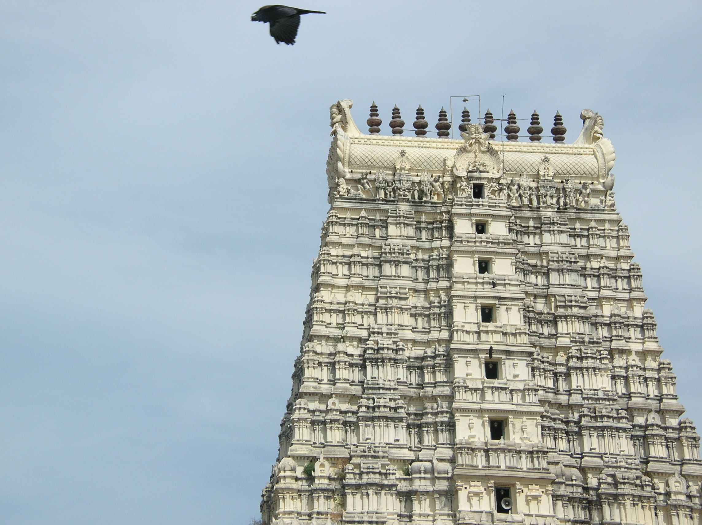 The front view of the Rameswaram temple in an early morning.